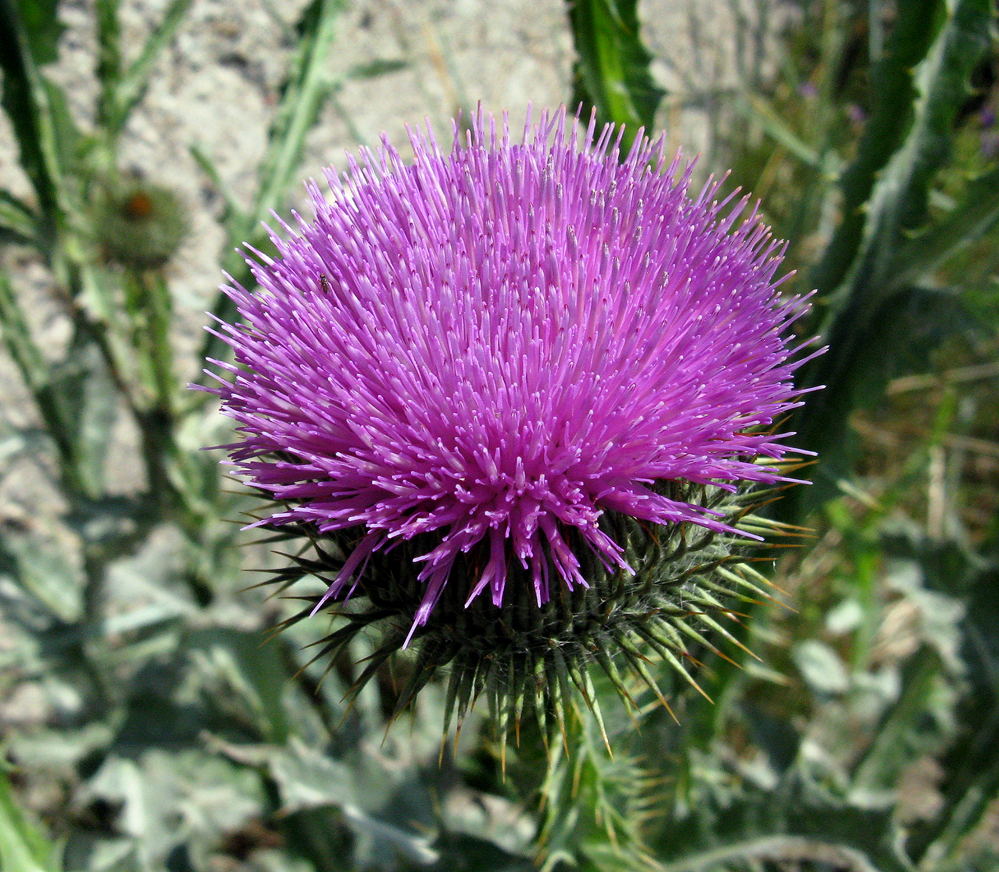 Cotton thistle in bloom (Onopordum acanthium)